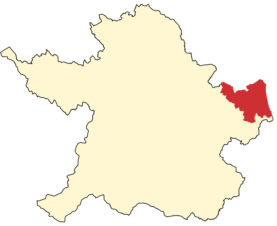 Map of East Meath